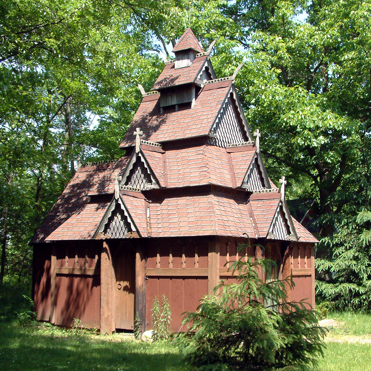 St. Swithun's, a replica stave church in rural Warren County, Indiana.